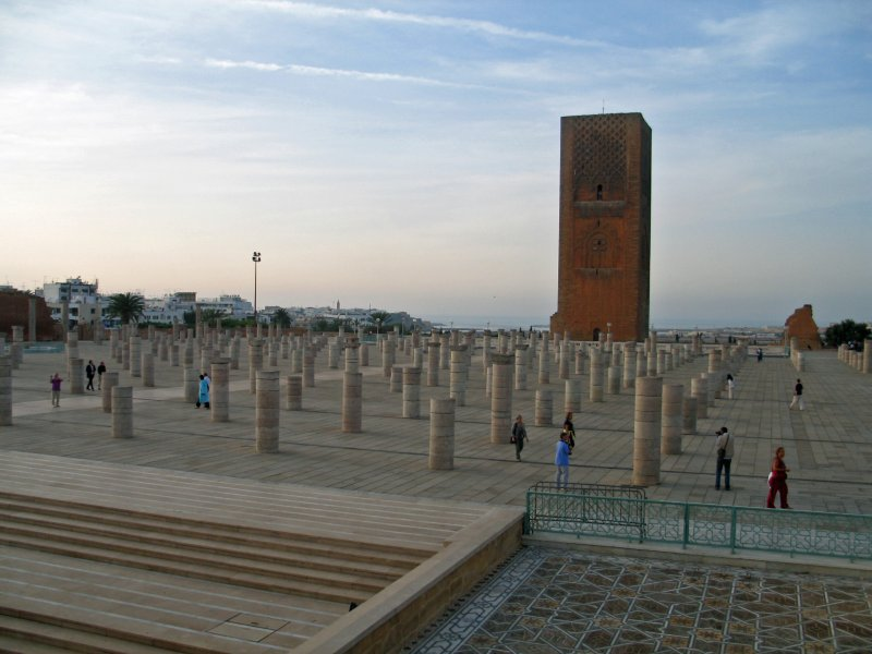 Rabat. Morocco